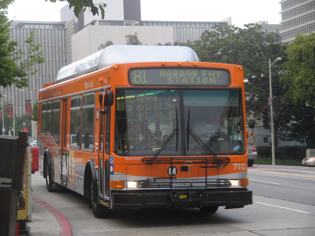 Photo of the new "poppy orange" Metro Local painting scheme.